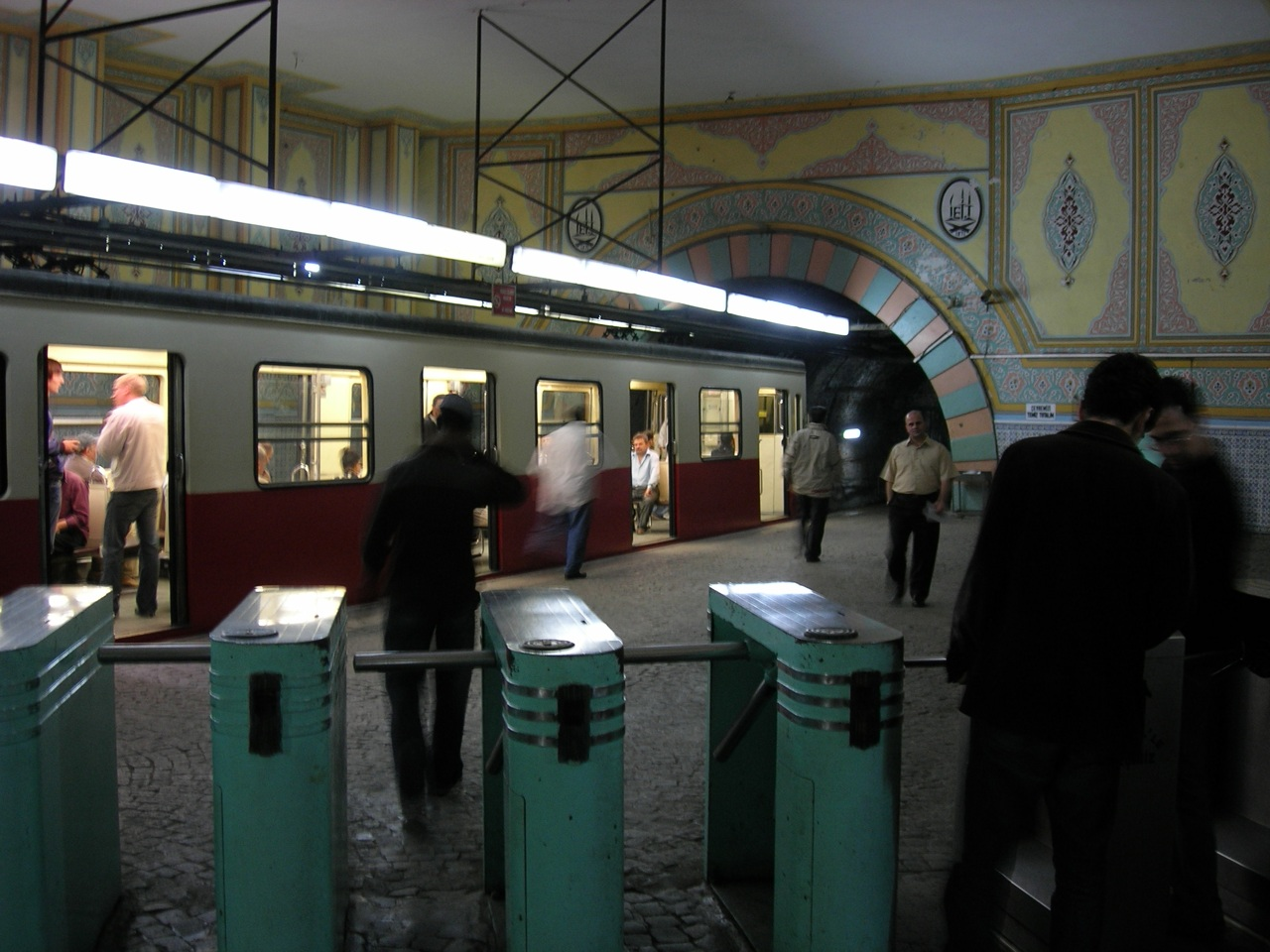 station Karaköy of the Istanbul funicular "Tünel"